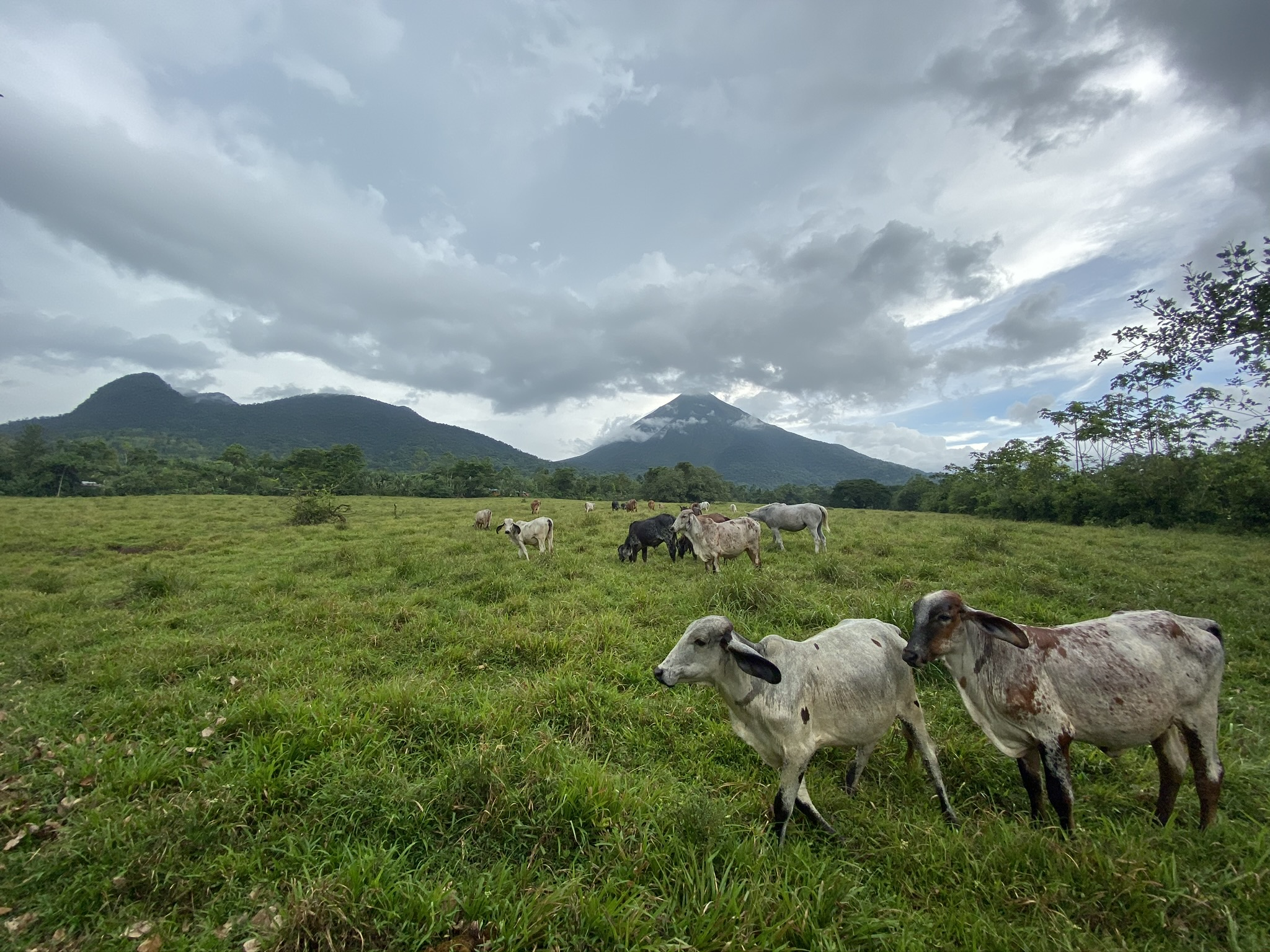 Cerro Chato Volcano (left) and Arenal Volcano (right), with cattle in the foreground. La Fortuna, Alajuela Province, Costa Rica. Cerro Chato volcano was once a stratovolcano like Arenal, but it blew its top off in a violent eruption. Arenal is still active.